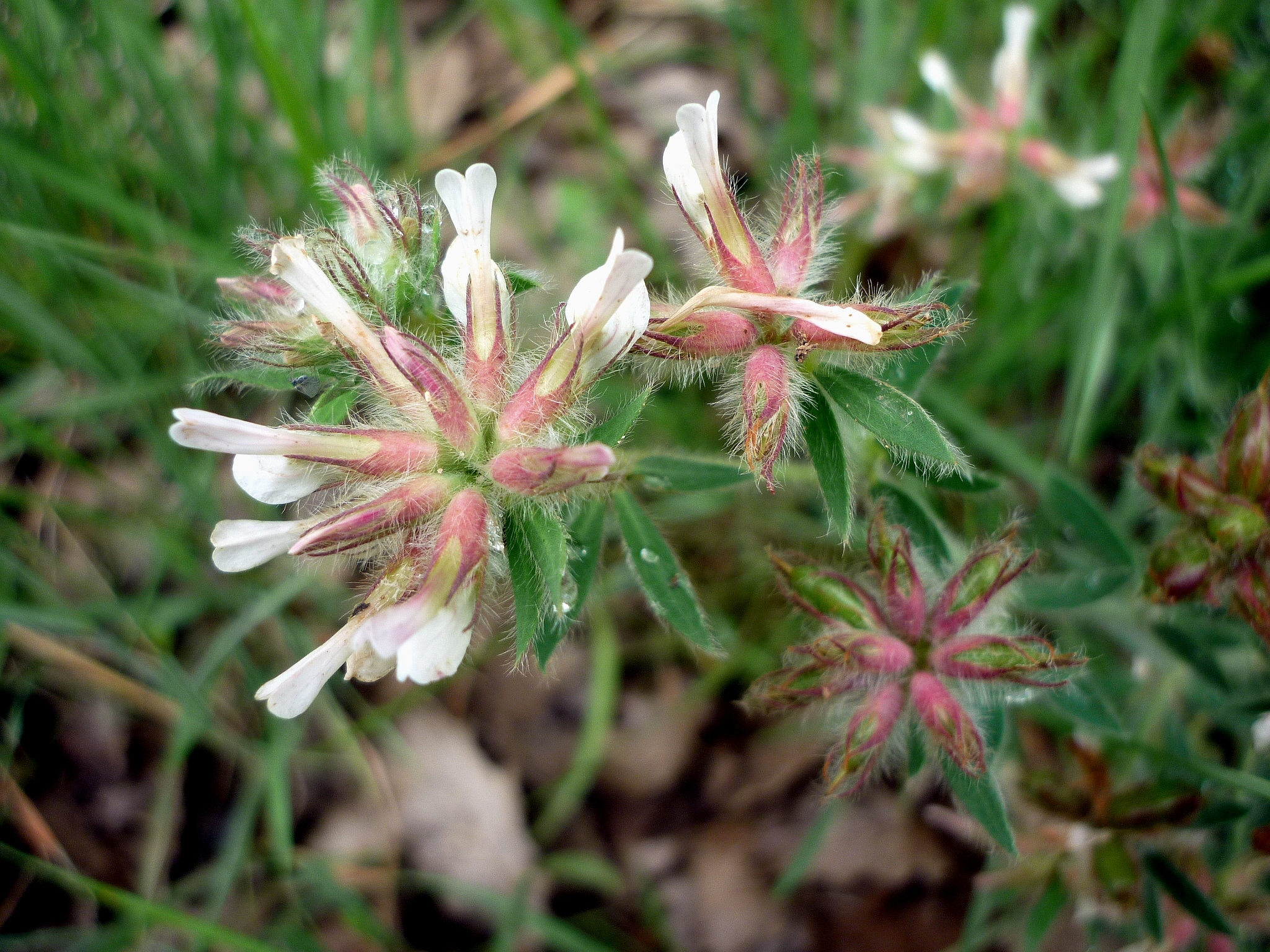 Dorycnium hirsutum. In Torà (Segarra- Catalunya). On 560 m. altitude